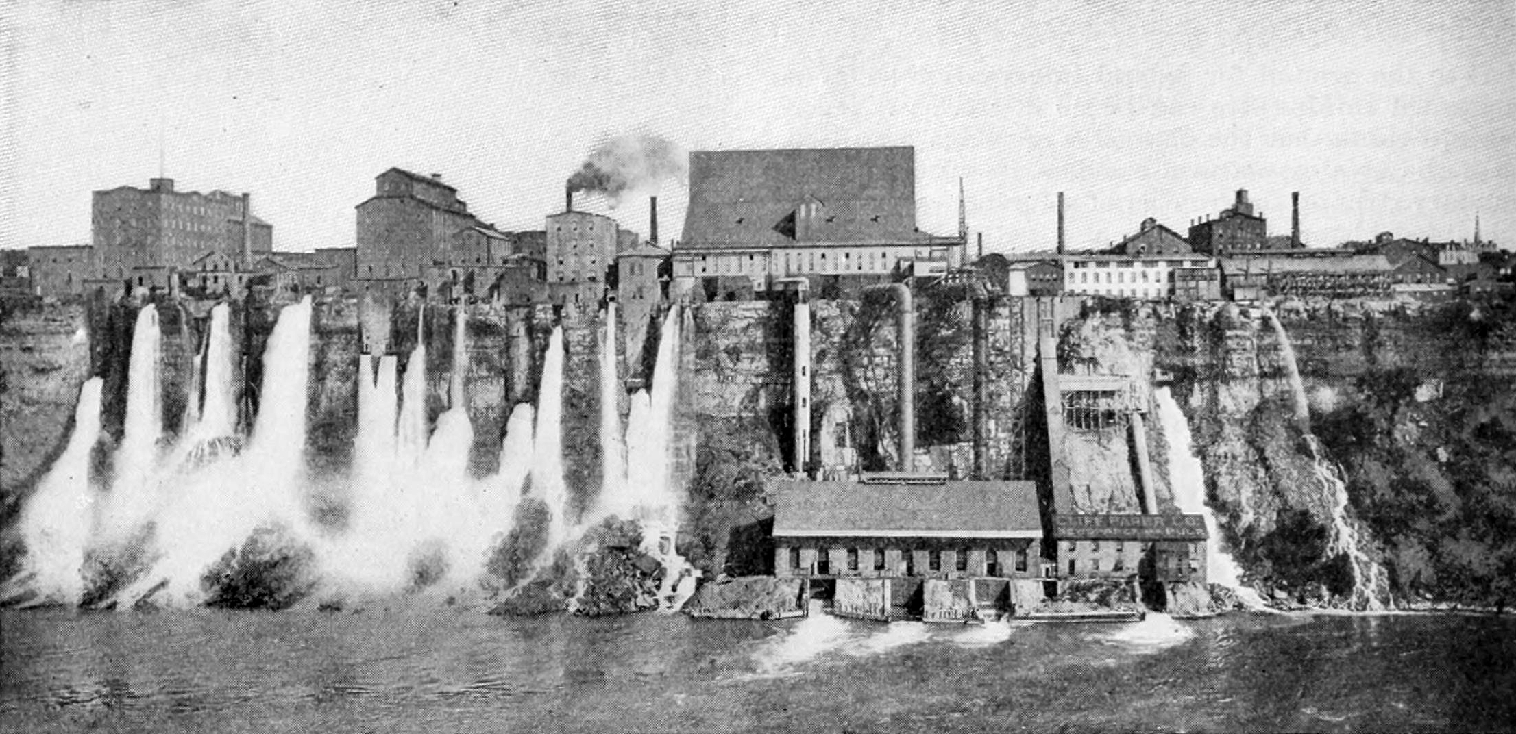 Harnessing the Niagara River's power in Niagara Falls, New York, c. 1901.